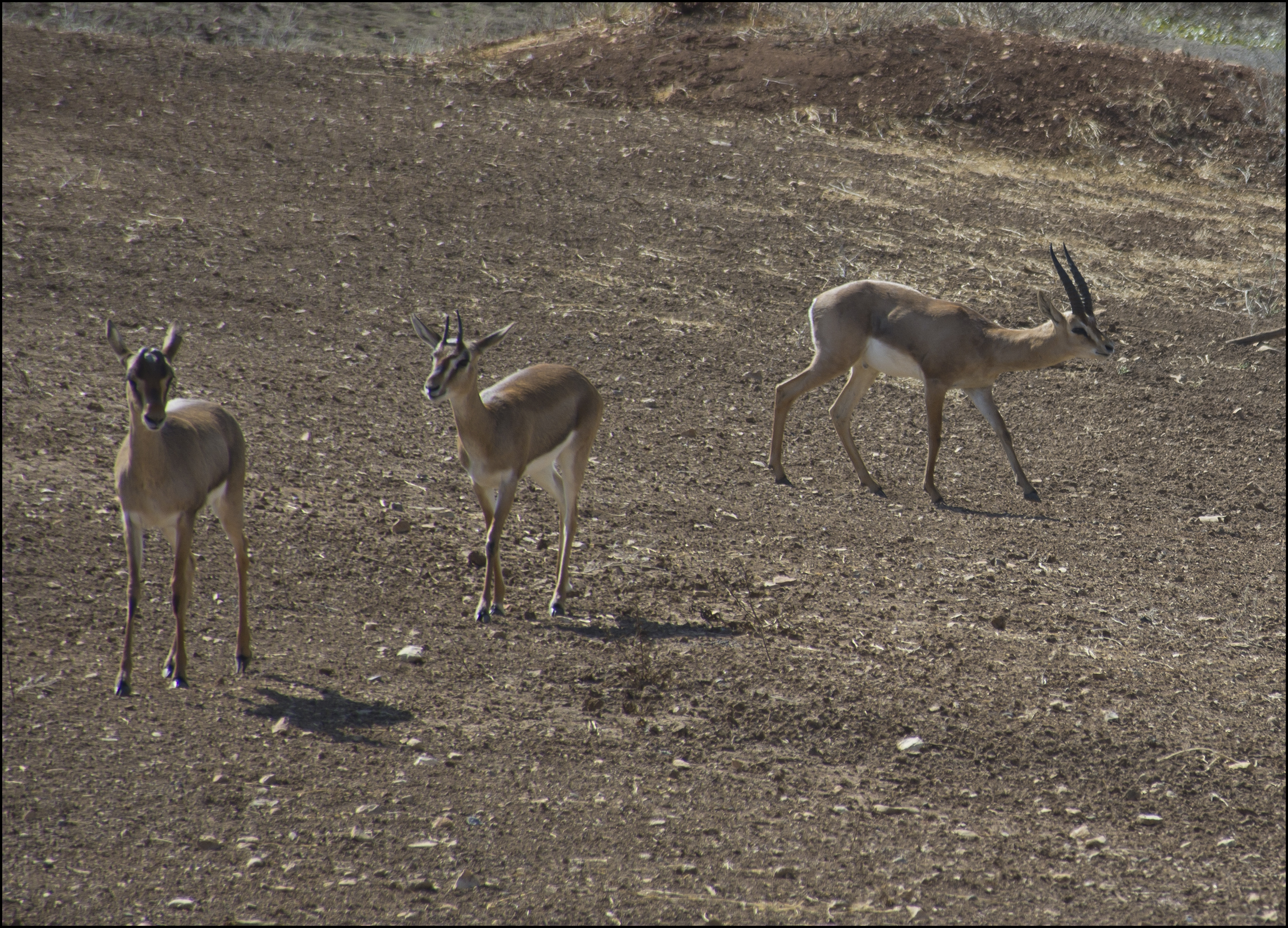 Israeli Gazelle (Gazella gazella gazella), Gazelle Valley, Jerusalem, Israel